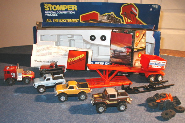 Stomper Official Competition Pull Set by Schaper Toys